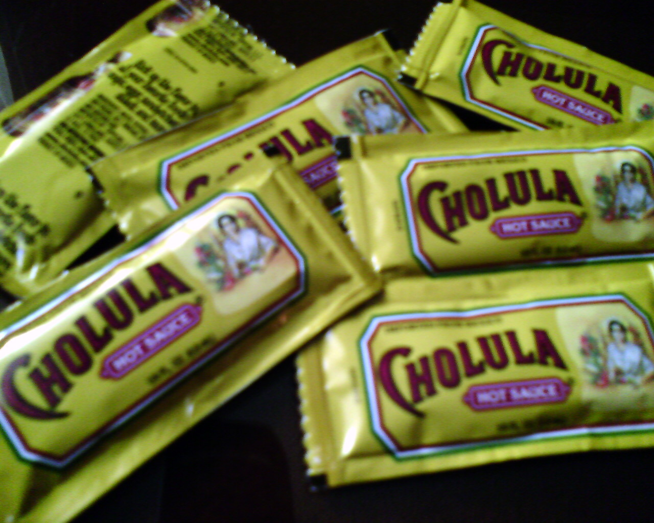 Cholula Hot Sauce Sachets. These have now been discontinued.